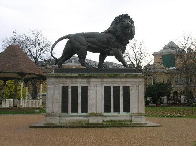 The statue commemorates the soldiers of the Berkshire Regiment who lost their lives at the battle of Maiwand in Afghanistan and in the subsequent campaign which ended the Second Afghan War. The year was 1880 - the last time that our soldiers fought on our behalf in the same part of that country and under the same extreme conditions.